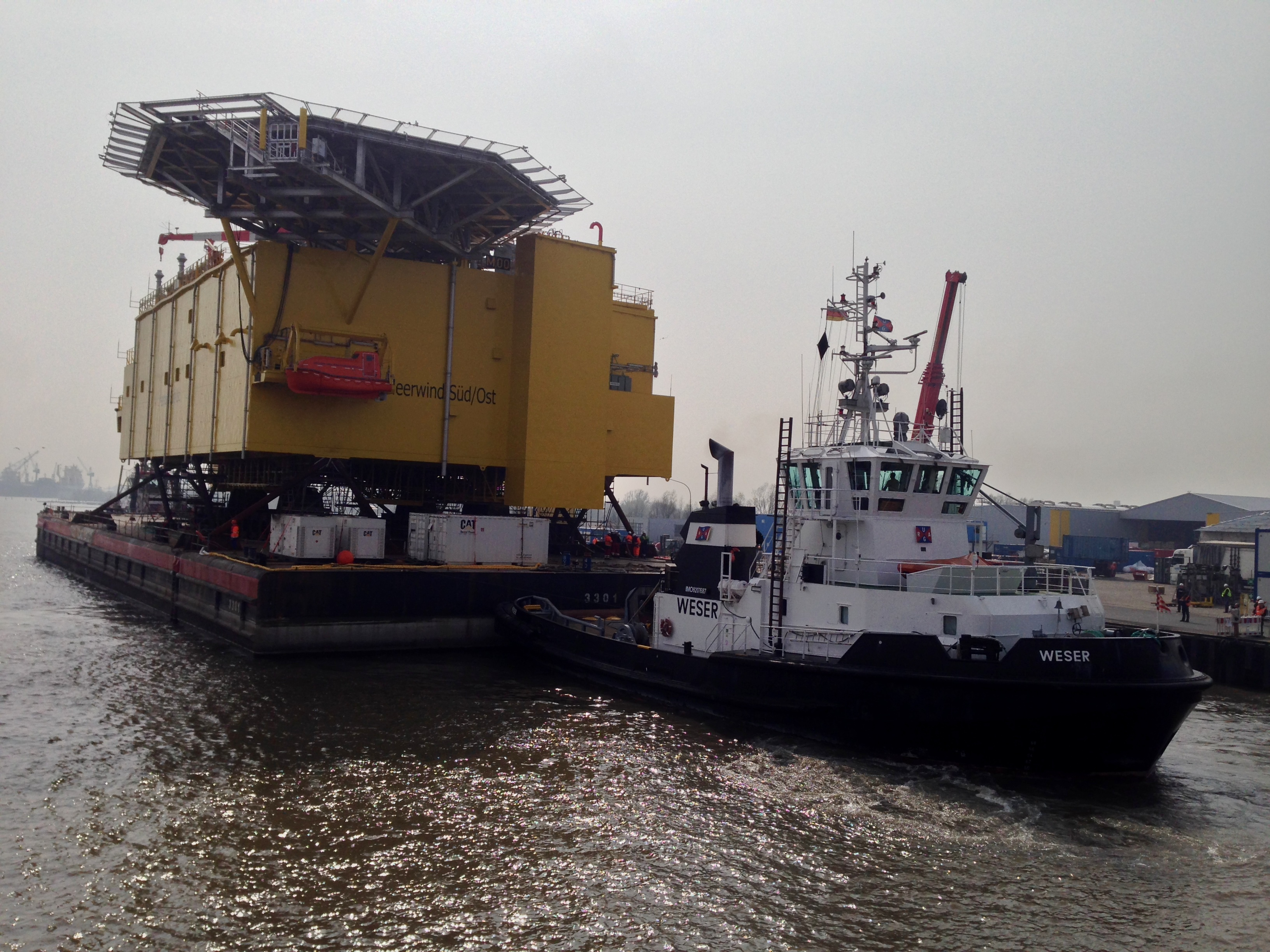 two tugboats have moored the barge with the "OSS Meerwind"